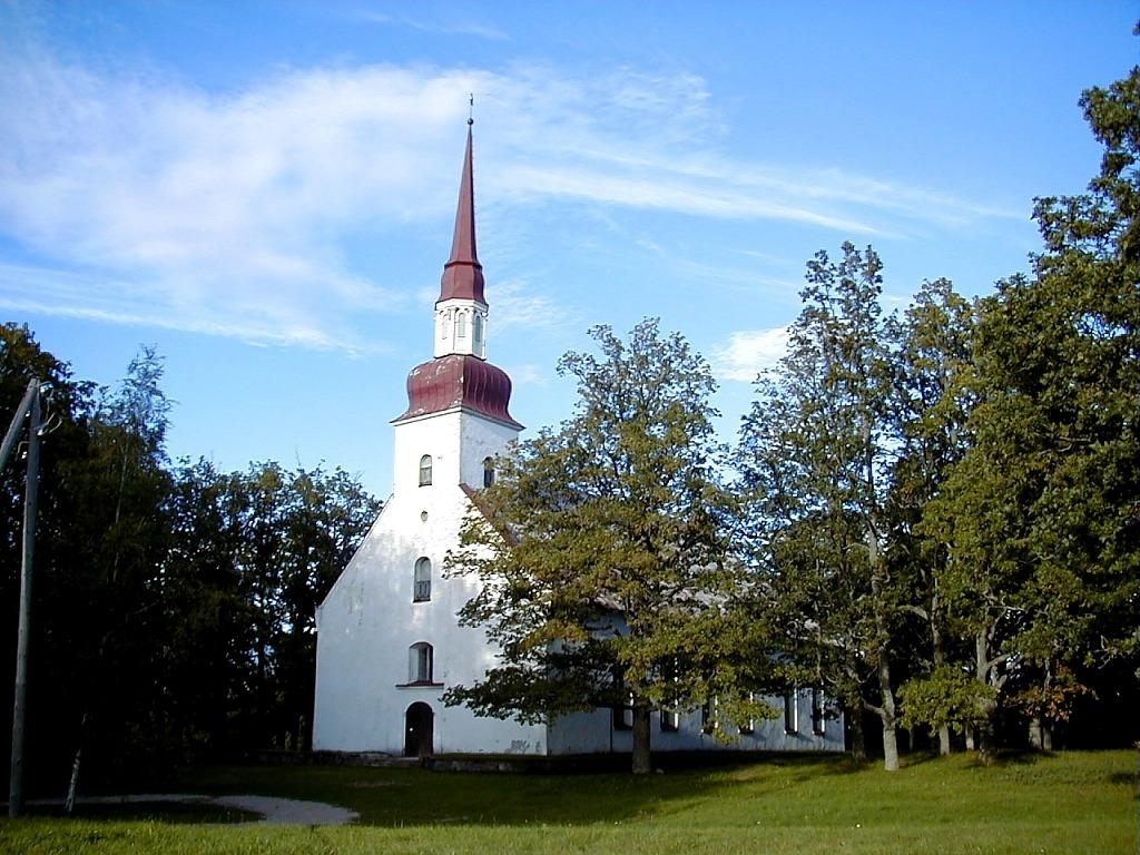 Opekalns church